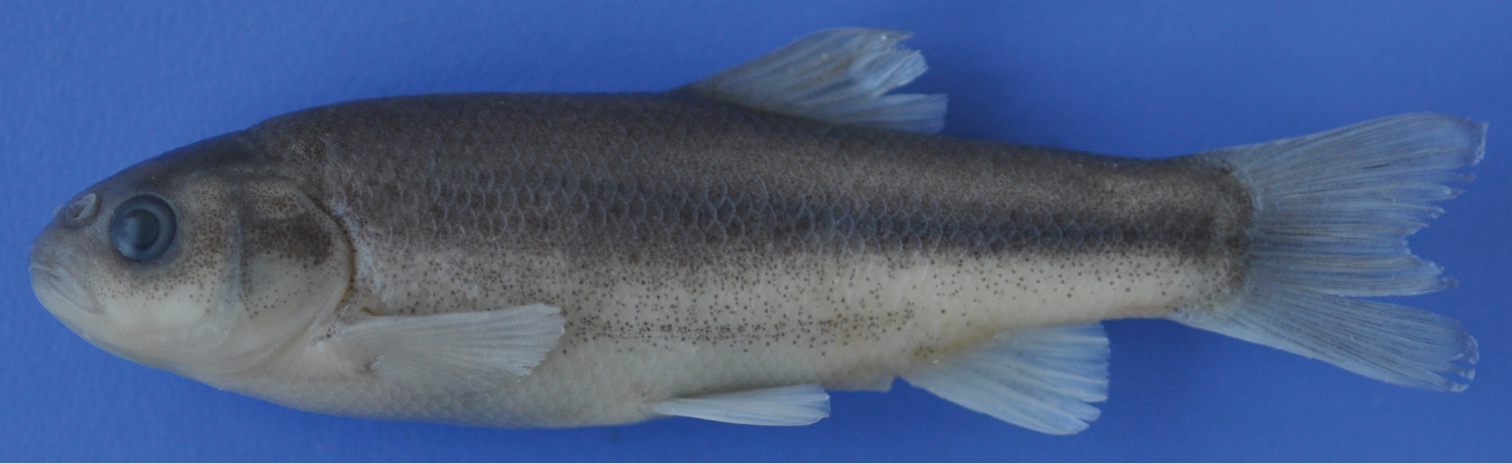 Pseudophoxinus burduricus. IFC-ESUF 0427, holotype, 62.80 mm SL, female; Turkey: Değirmendere Creek, Burdur.